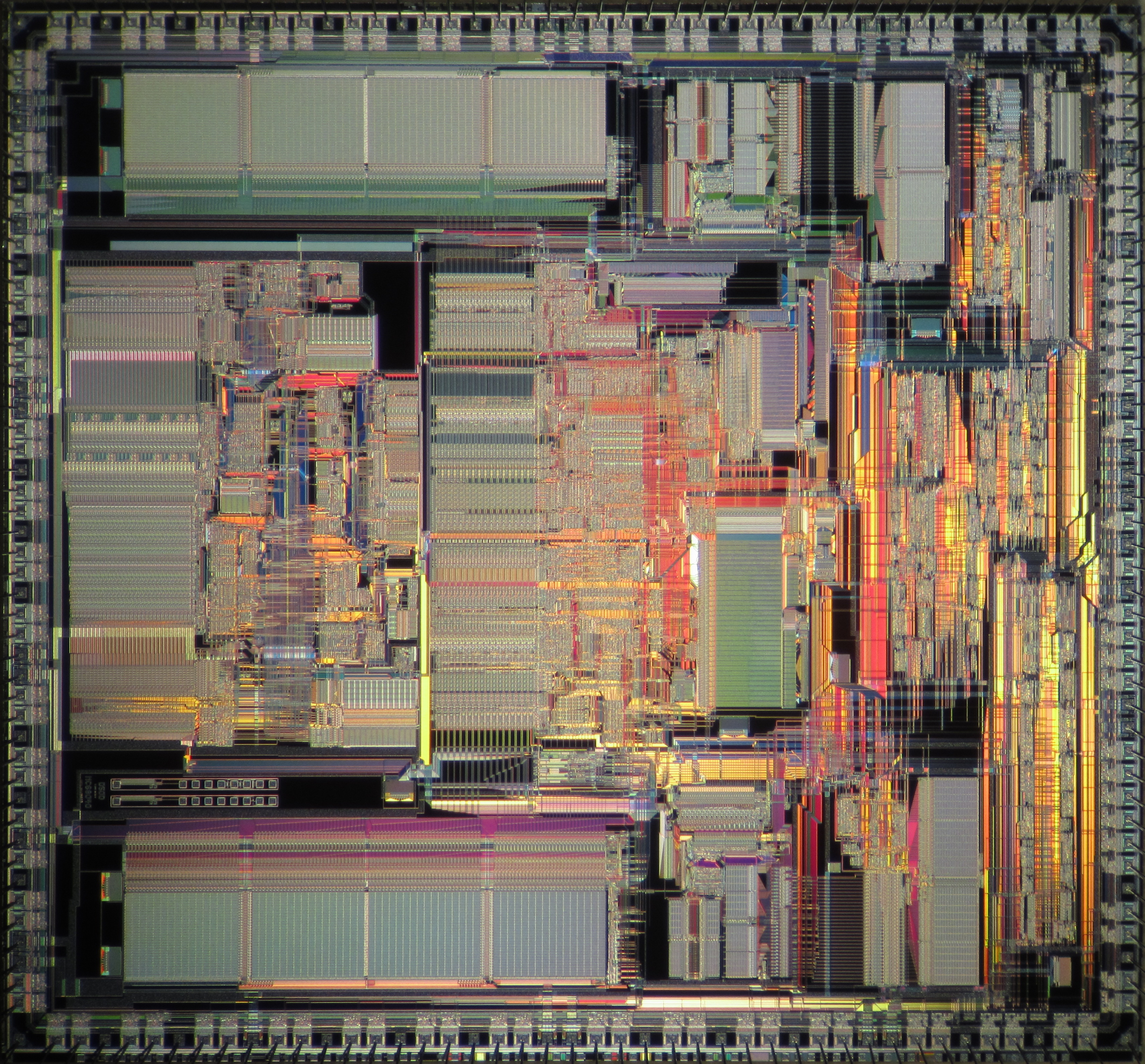 Die shot of Motorola 68040 microprocessor (XC68040RC25B, 09D50D mask).